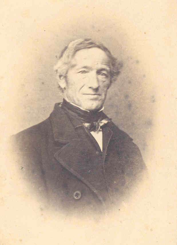 Ferdinand Schneider, Member of the Landtag of Vorarlberg (1861–1867).